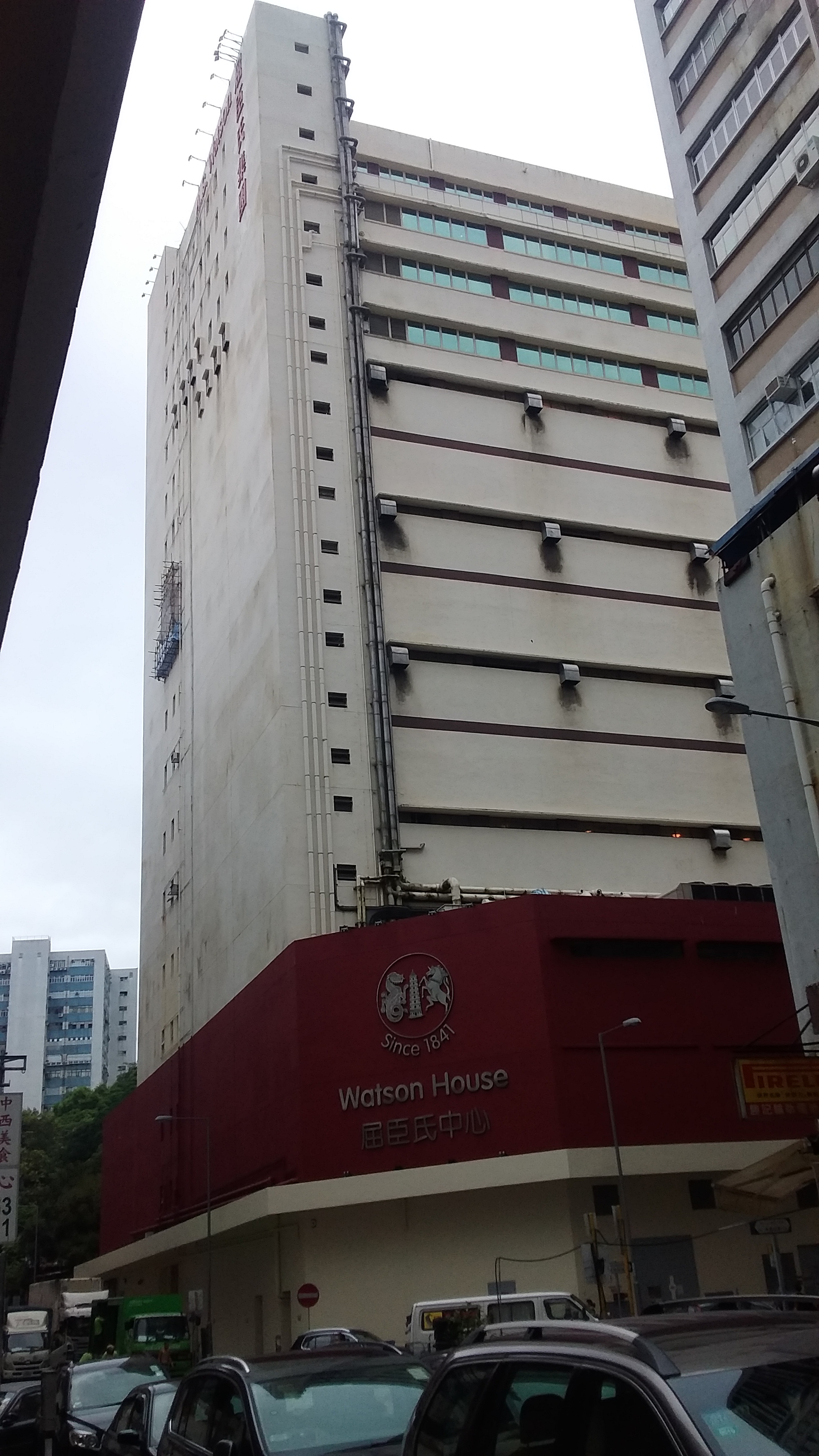 Watson House - A.S. Watson head office